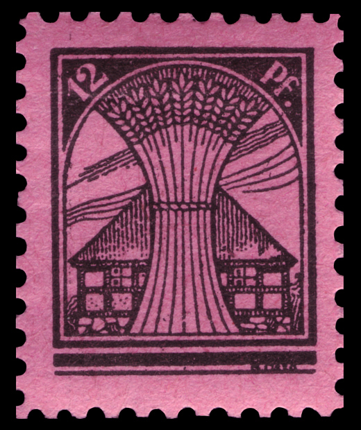 series of stamps of the Soviet occupation zone, Mecklenburg-Vorpommern, numbers, farmer, farm house Ausgabepreis: 12 Pfennig First Day of Issue / Erstausgabetag: 28. August 1945 Michel-Katalog-Nr: 16 (Alliierte Besatzung - Sowjetische Zone - Mecklenburg-Vorpommern)